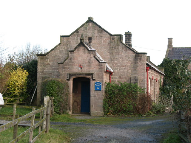 St Helen's Chapel of Ease Tiny church in Little Ribston, dated 1860, but of no architectural interest whatsoever.